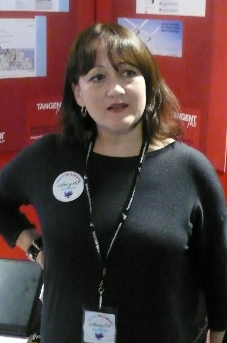 Kerry Mccarthy MP picks up her 'tweet for Labour' sticker at the Labour Party new media stand